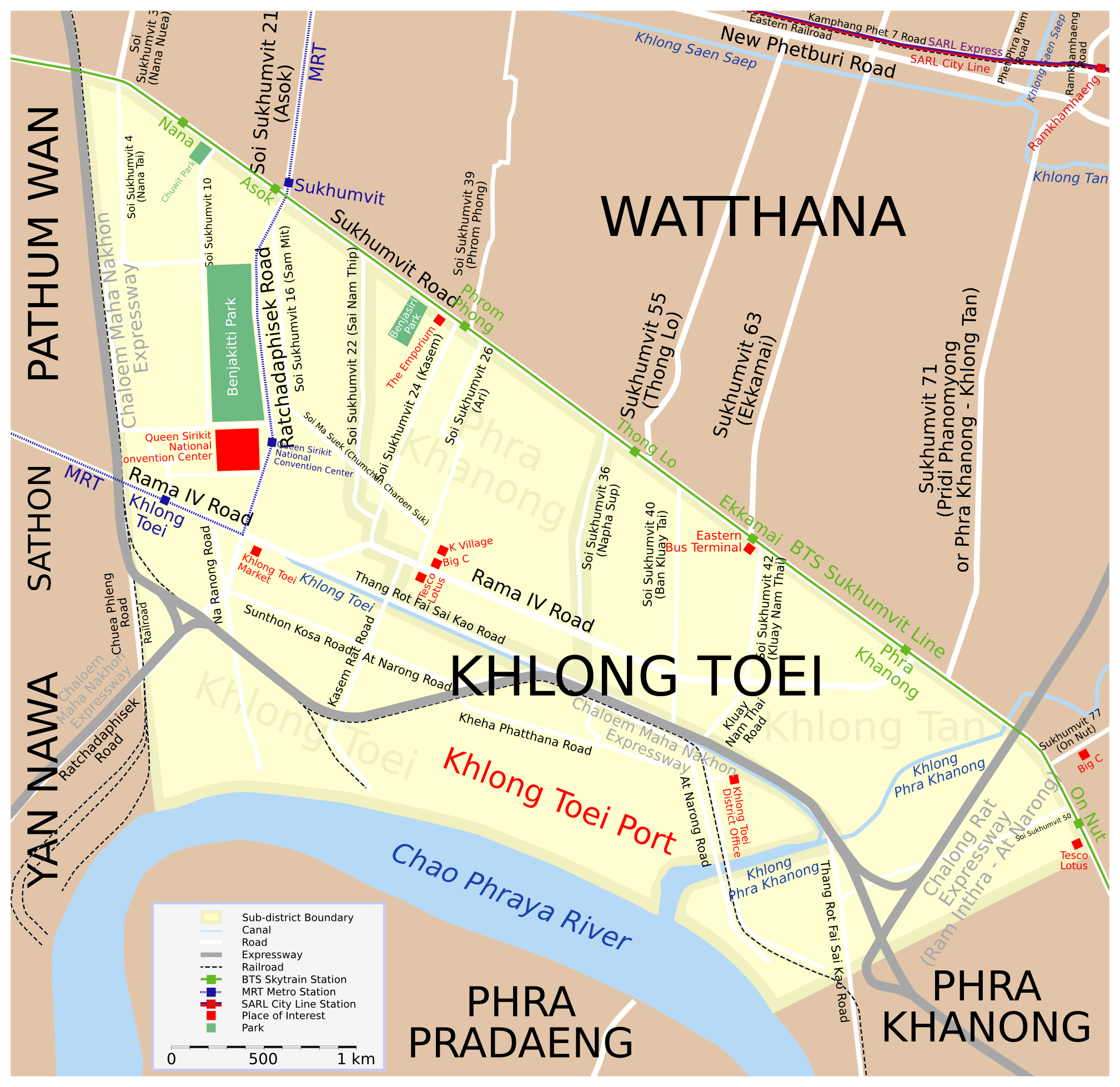 Map of Khlong Toei District, Bangkok.